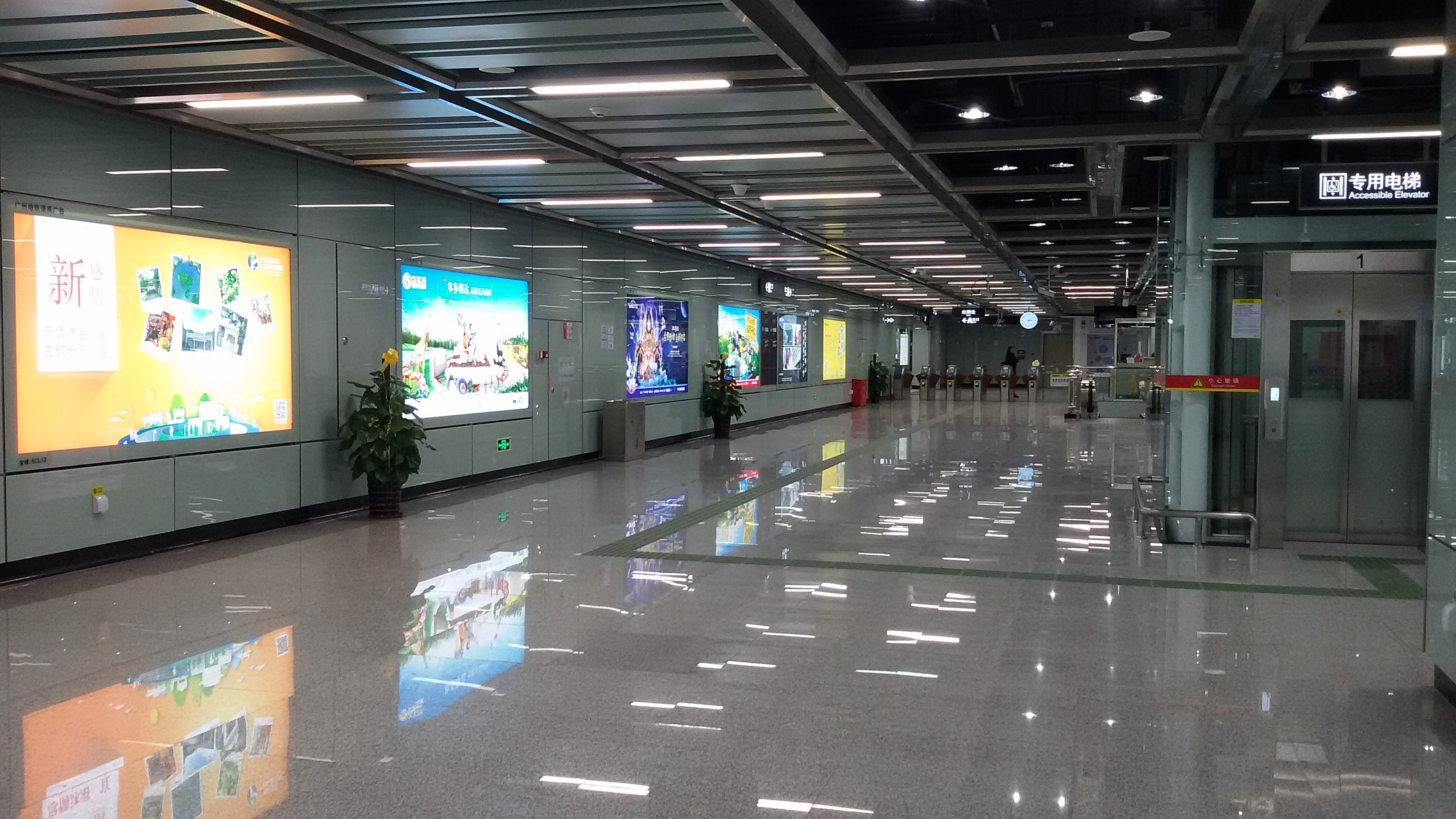 Station Concourse for Jinfeng Station in Guangzhou Metro.